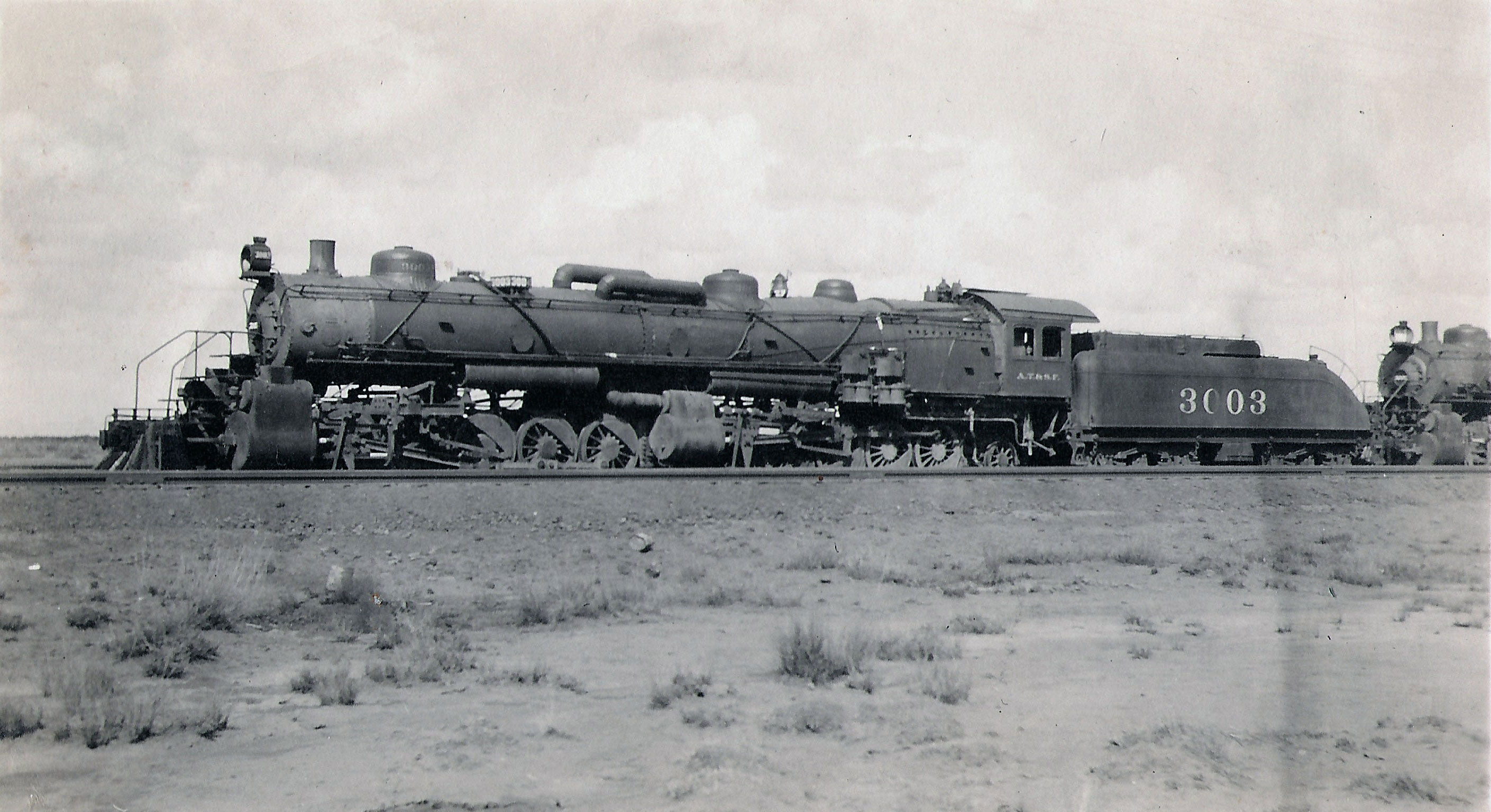 Atchison Topeka & Sante Fe Railroad engine 3003, a mallet locomotive on the tracks outside Winslow, Arizona in 1913-14. "The first 2-10-10-2s were constructed in 1911 by the Atchison, Topeka and Santa Fe Railroad at a cost of $43,880 each. They were built out of existing 900 & 1600 class 2-10-2s with new front engines and tenders from Baldwin. They were used between Bakersfield and Barstow and up to San Bernardino. The railroad built 10 of these engines, which were cobbled together by the Santa Fe using existing 2-10-2 engine units united with low-pressure engine units supplied by Baldwin. Baldwin also designed and built the unusual "turtleback" tender that probably was designed to improve rearward vision. A distinctive ribbed firebox trailed the long boiler. Like other Santa Fe Mallets, the actual tube length was relatively short, but a "reheater" ahead of the forward tube sheet and boiler joint was supposed to maintain steam heat as it traveled forward to the high-pressure cylinders. It added 2,659 sq ft, but was nowhere nearly as efficient as later superheater designs. The design was unsuccessful and the engines were converted back to 2-10-2 simple-expansion locomotives in 1915-1918." Santa Fe 2-10-10-2 Locomotives Personal picture taken by railroad telegrapher Harold B. Phelps Sr. As his sole heir, I give permission for use under the license below.